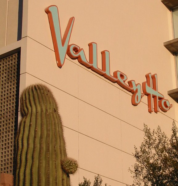 Photograph of the Hotel Valley Ho in Scottsdale, Arizona.